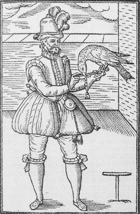 Woodcut of a Falconer, from George Turberville´s The Booke of Faulconrie or Hauking and the Noble Arte of Venerie (also called the Book of Hunting) (1575)